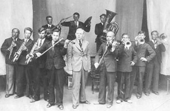 Valentin Scorius orchestra. Kouybyshev city. (was bad attributed as the First Eccentric Orchestra of the Russian Federated Socialist Republic - Valentin Parnakh's Jazz Band)